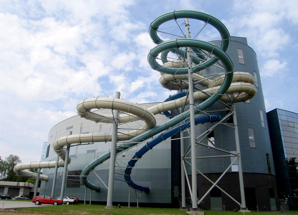 Water park tubes in Druskininkai, Lithuania